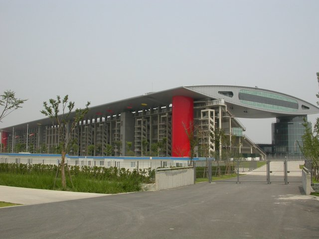 Shanghai International Circuit.